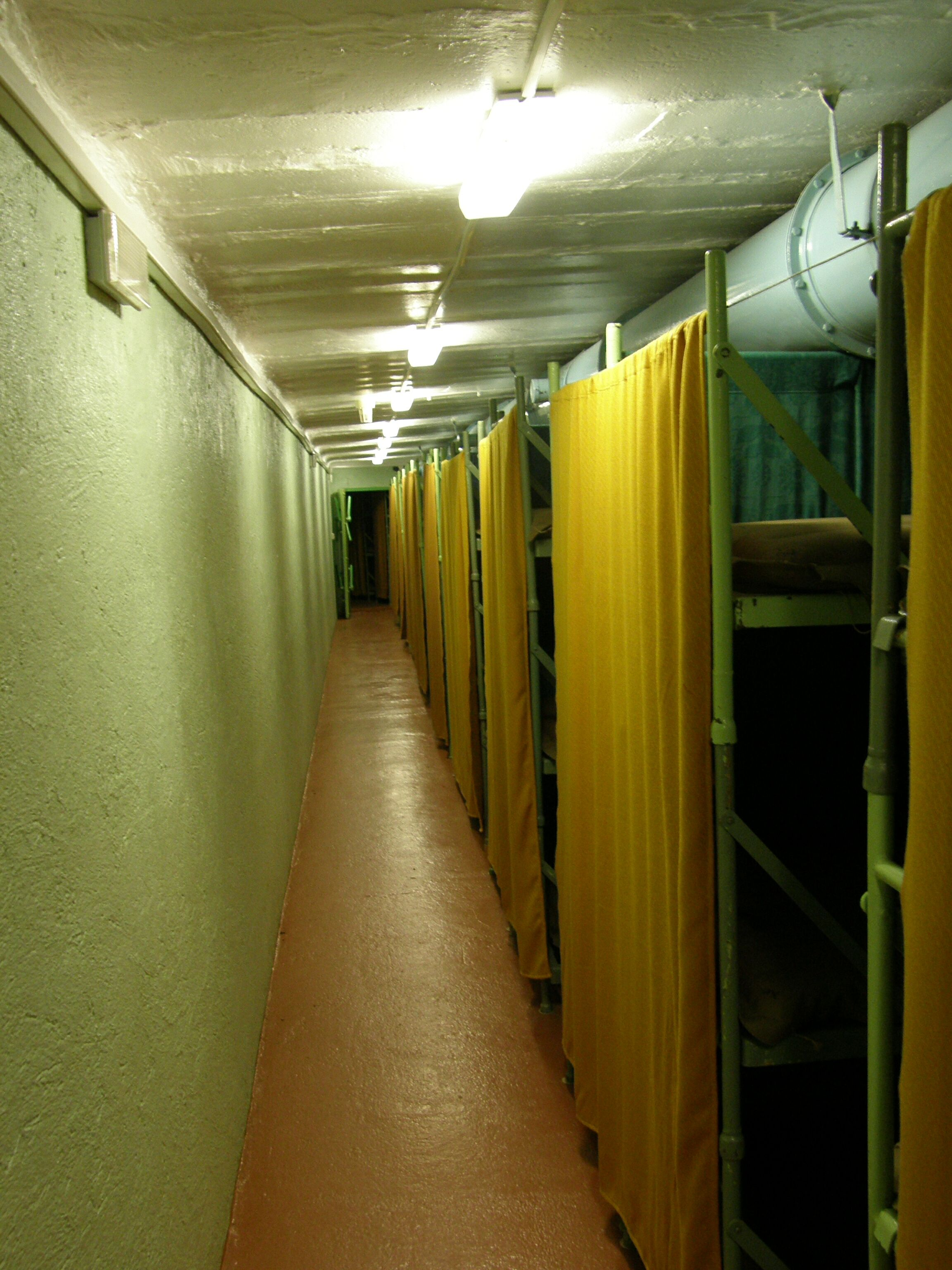 Cave Výpustek